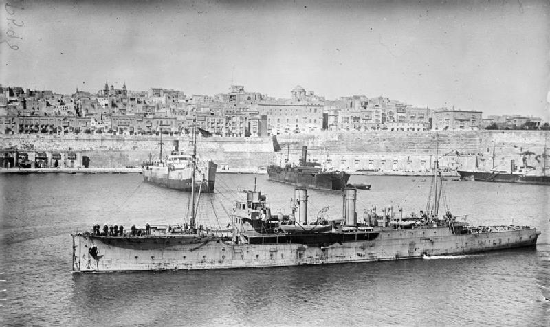 Photograph of British Arabis class minesweeping sloop HMS Amaryllis at Malta.